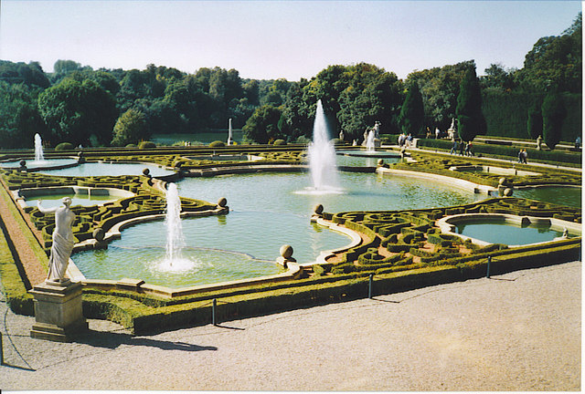 Formal Garden, Blenheim Palace. This is on the west side of the palace. The gardens follow French style of Le Notre with knotwork of low box hedges and shaped fountains.